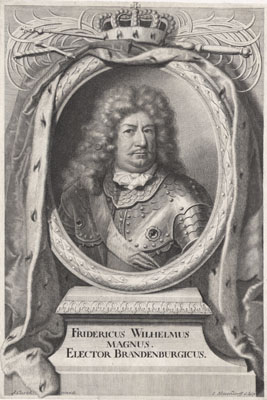 Frederick William, Elector of Brandenburg (1620–1688)